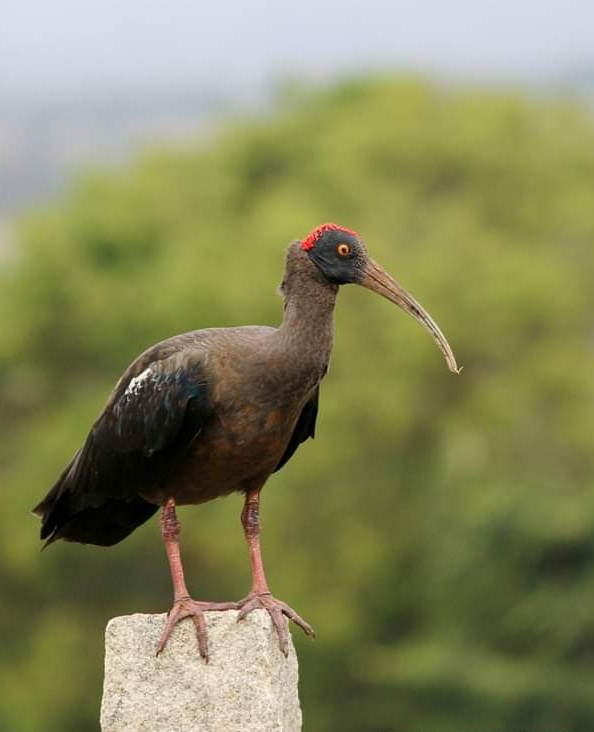 Red naped ibis